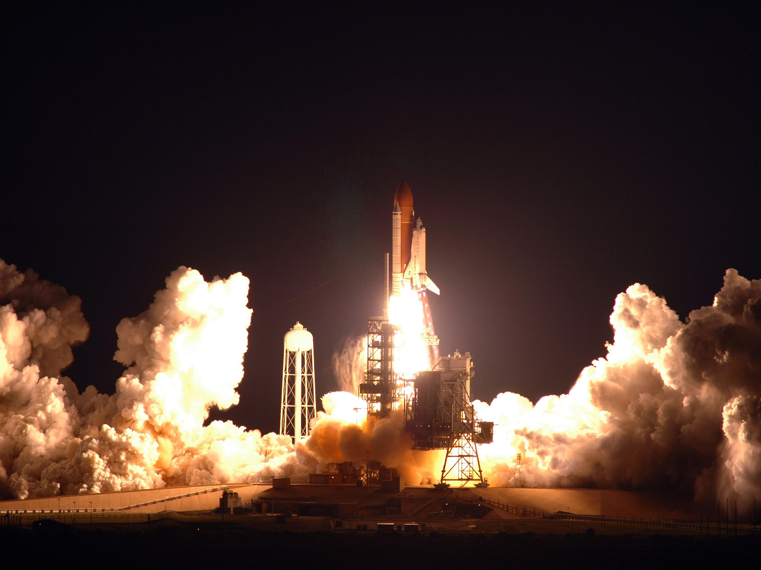 Space Shuttle Endeavour lifts off during STS-123